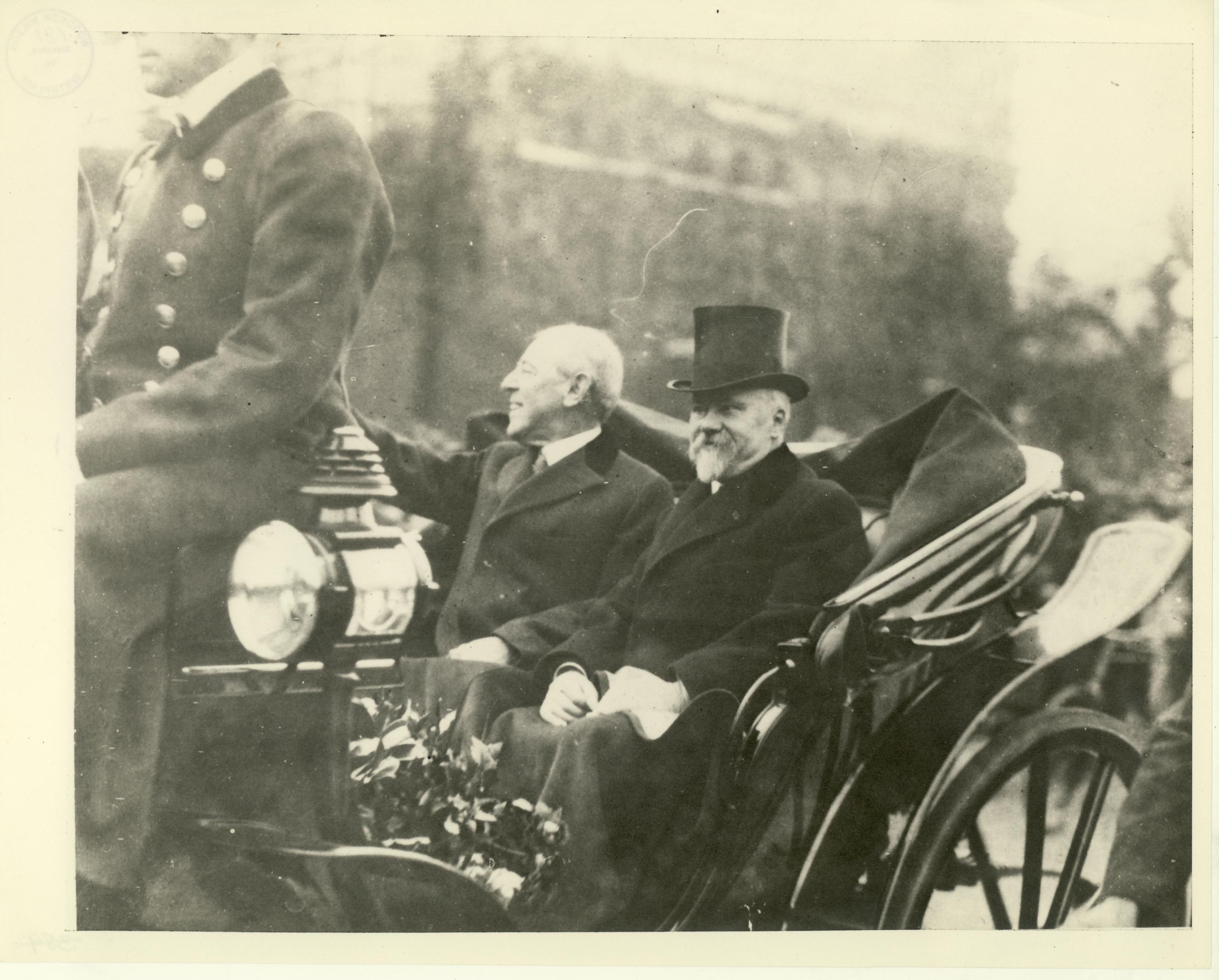 Local Accession Number: 181 Description: Wilson and President Poincare on parade in Paris, France. Wilson became the first president to leave the United States while in office when he traveled to France in December, 1918. Photographer: Unknown Source: Research Library, 20th Century Fox Size: 8x10 Medium: Print, Black and White Date: 1918